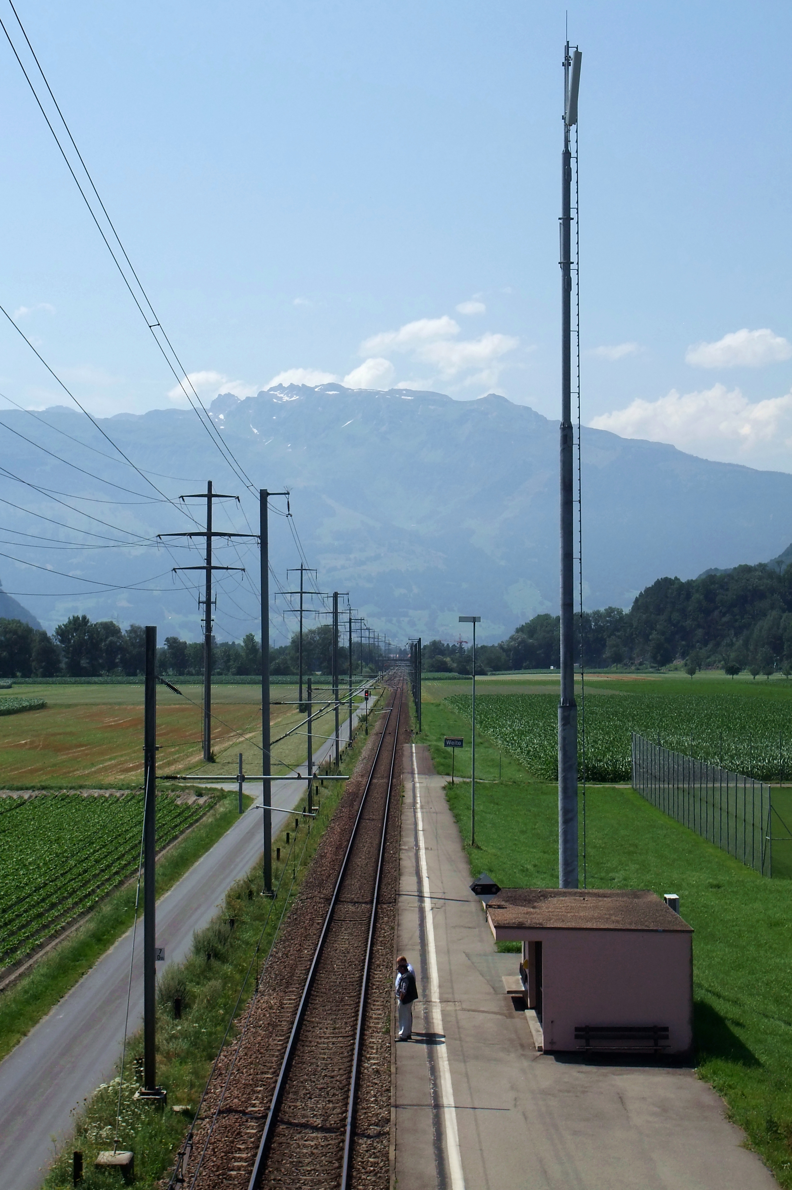 A station in the St. Gall Rhine Valley, which is served by two regional trains every hour. One in direction to Buchs and the other to Sargans. And finally, there is a ticket vending machine and a bus stop. But compared to Zurich, this station is almost nanotechnology. It is operated by the system 'stop on request'. Switzerland, July 24, 2012.